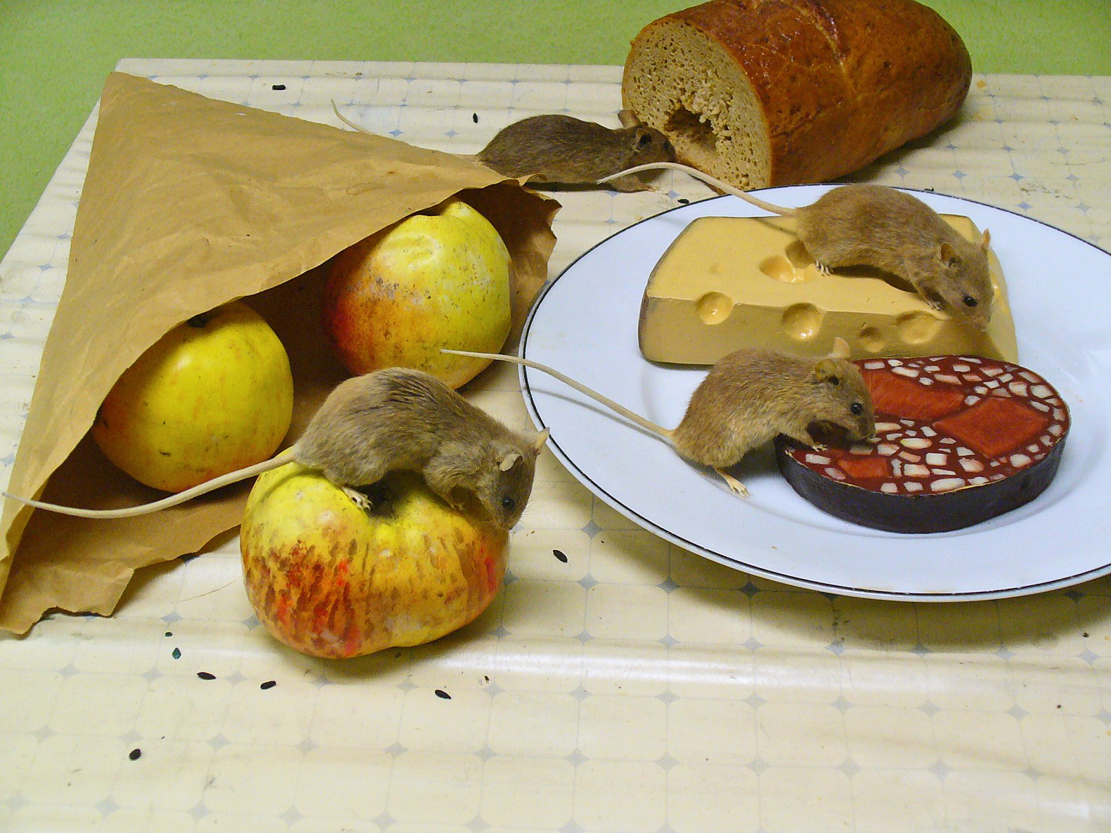 Mus musculus, Muridae, House Mouse; Staatliches Museum für Naturkunde Karlsruhe, Germany. The extremities, the tail and parts of the coat are used in homeopathy as remedy: Mus musculus (Mus-m.)